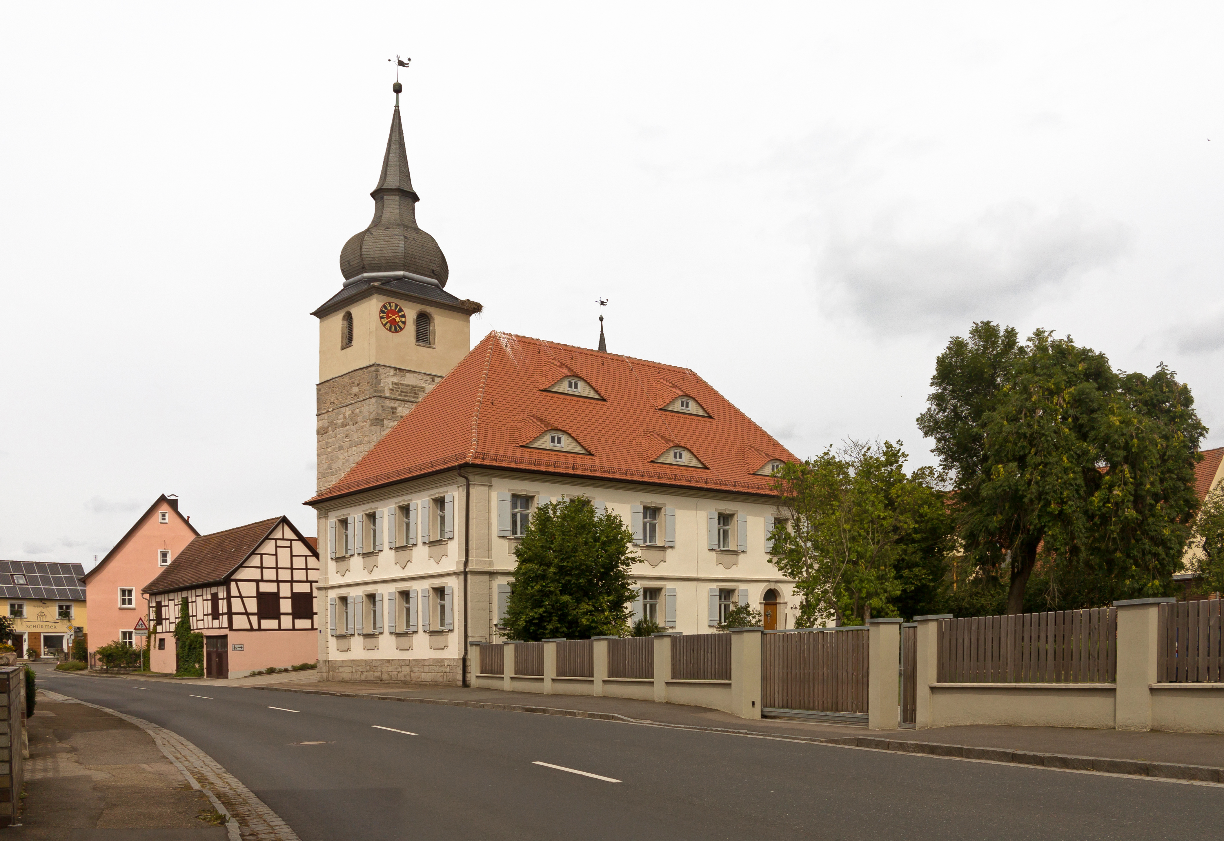 Ipsheim, house of the preacher